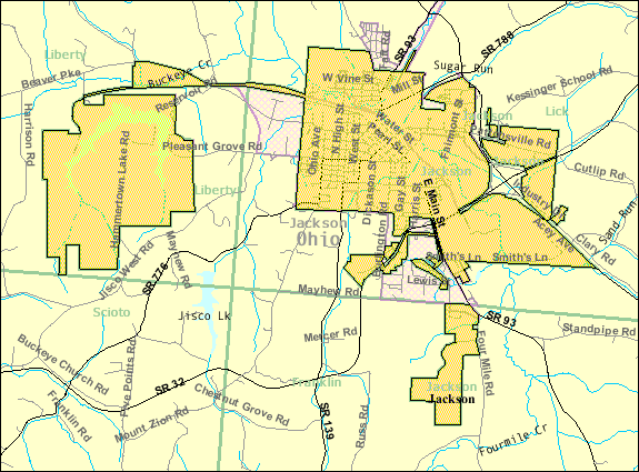 Map of Jackson, a city in Jackson County, Ohio, United States, with its boundaries at the time of the 2000 census.